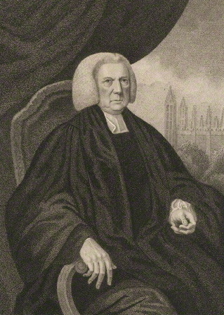 Portrait of William Cooke (1711–1797), English cleric and academic.